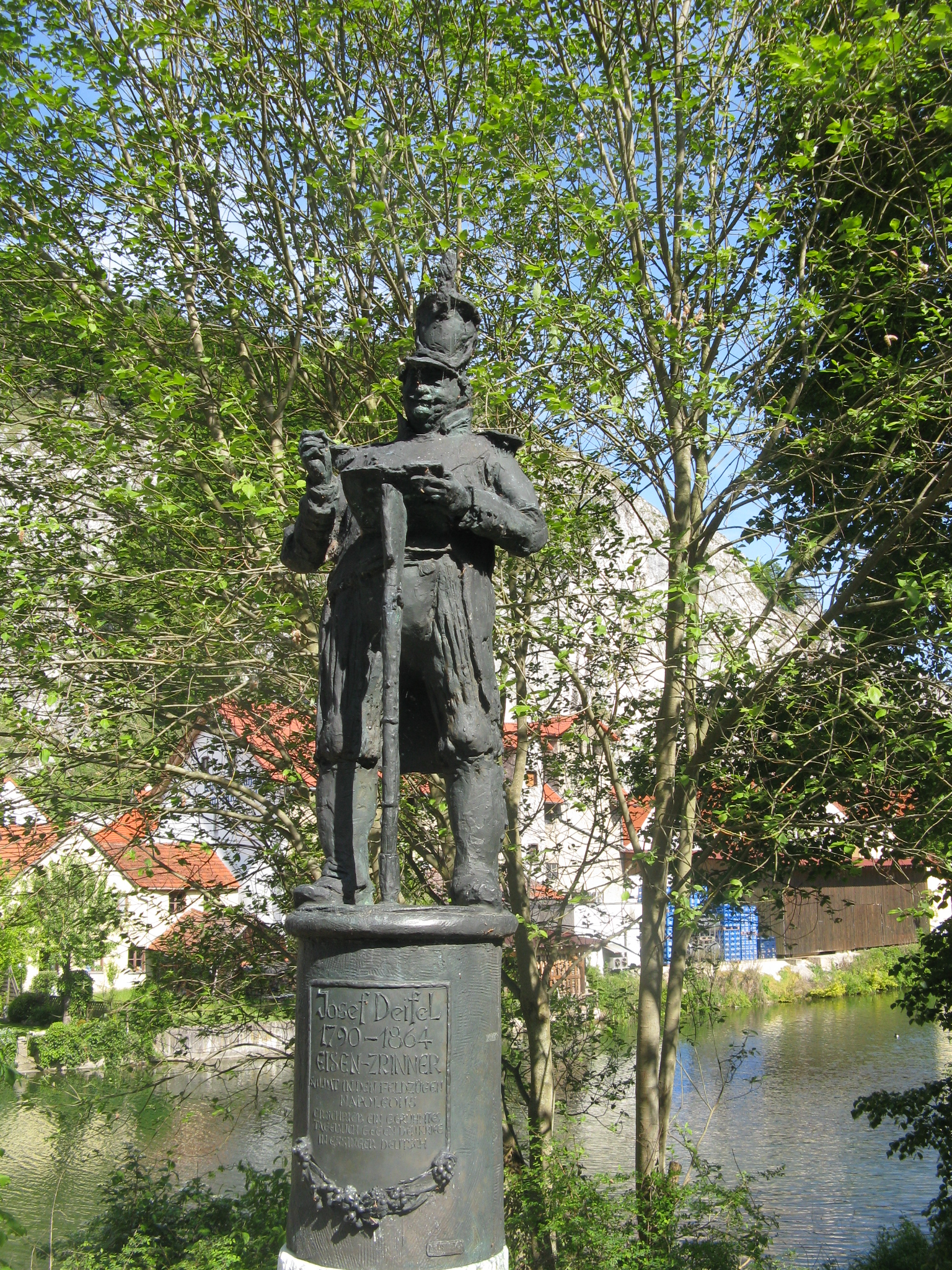 Monument for Josef Deifl, Bavarian soldier in Napoleon's army, Essing/Germany